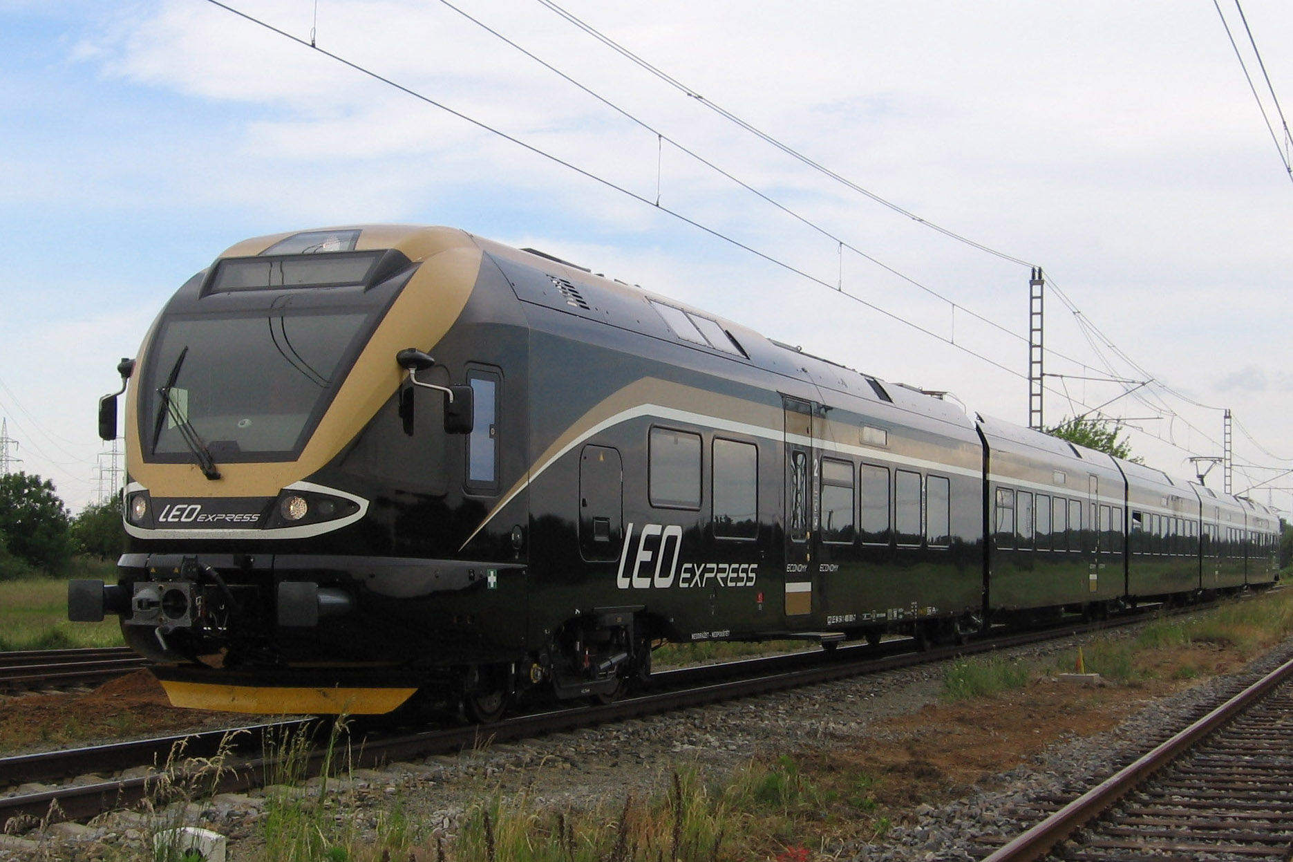 Leo Expres 480.001 at the test circuit Cerhenice